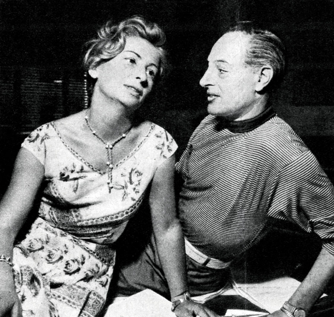 Photo from the magazine Radiocorriere (1956)